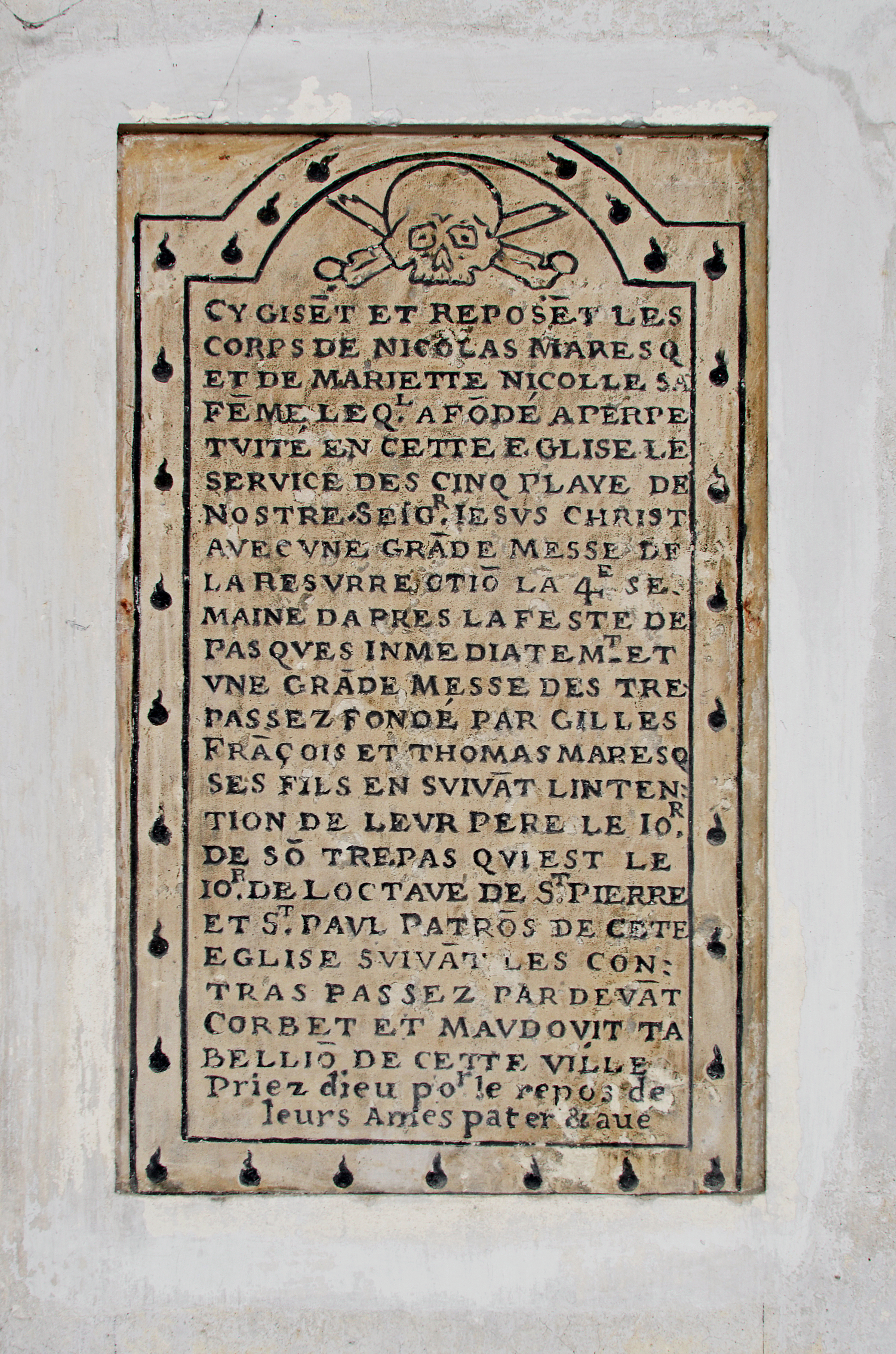 Ledger stone of Nicolas Maresq and Mariette Nicolle, his wife (XVIth century) - Saint-Pierre church - Coutances, Manche, France.